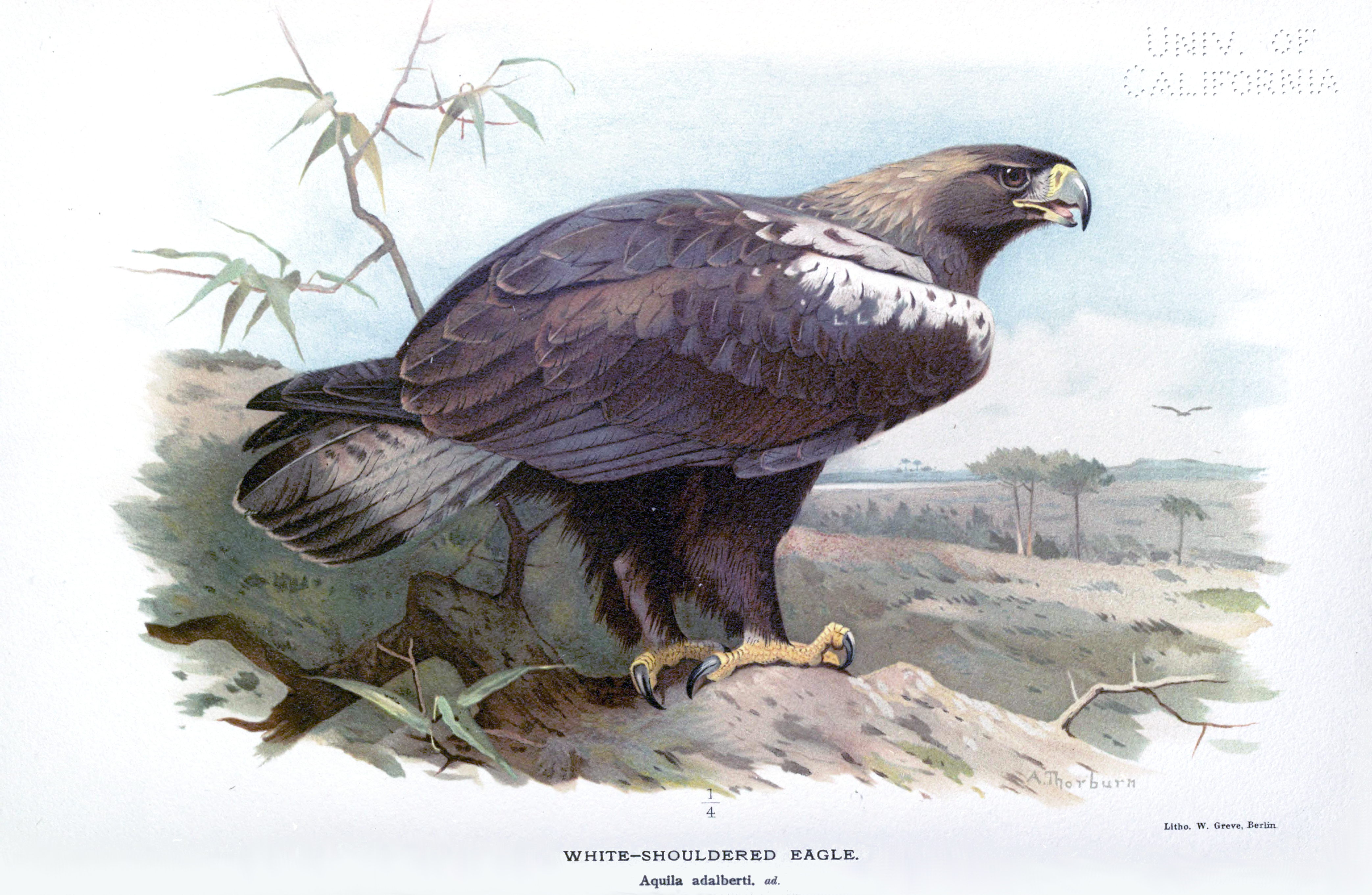 White Shouldered Eagle from Ornithology of Straits of Gibraltar from Lt. Col. Leonard Howard Loyd Irby, 1895, which is freely licensed (watercolour by Scottish artist Archibald Thorburn, 1860-1935)